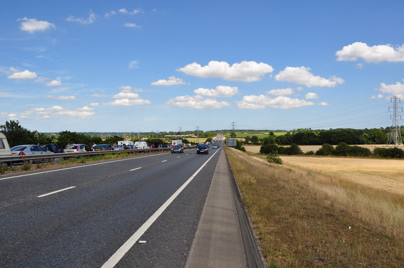 A47 Norwich, near to Caistor st Edmund, Norfolk, Great Britain. A crash on the A47 causing chaos in the opposite lane.